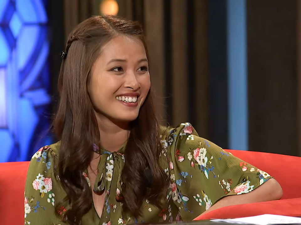 Czech actress of Vietnamese origin Ha Thanh Špetlíková